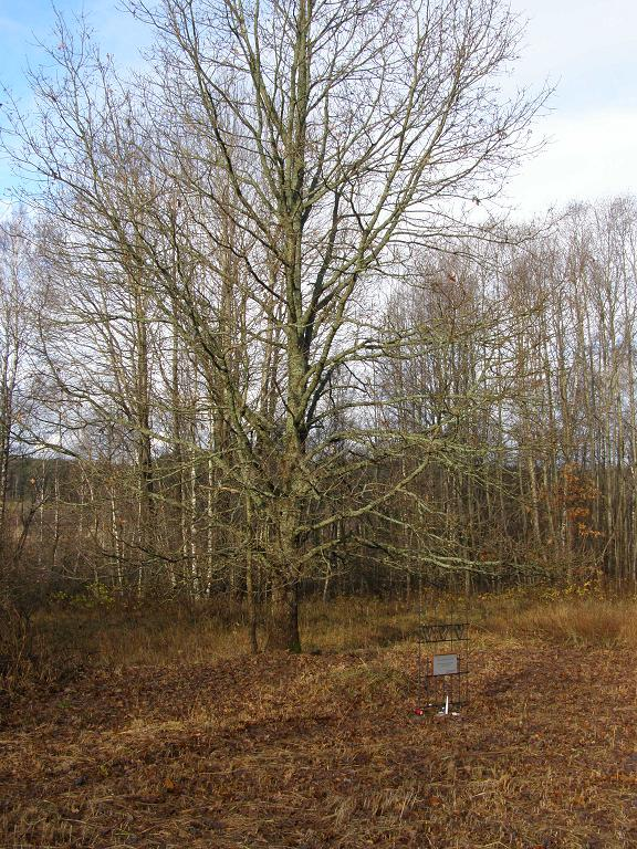 Nausodis, Kretinga district, LithuaniaLietuvių: Partizanų atminimo vieta Nausodžio k., Kretingos rajonas, Lietuva